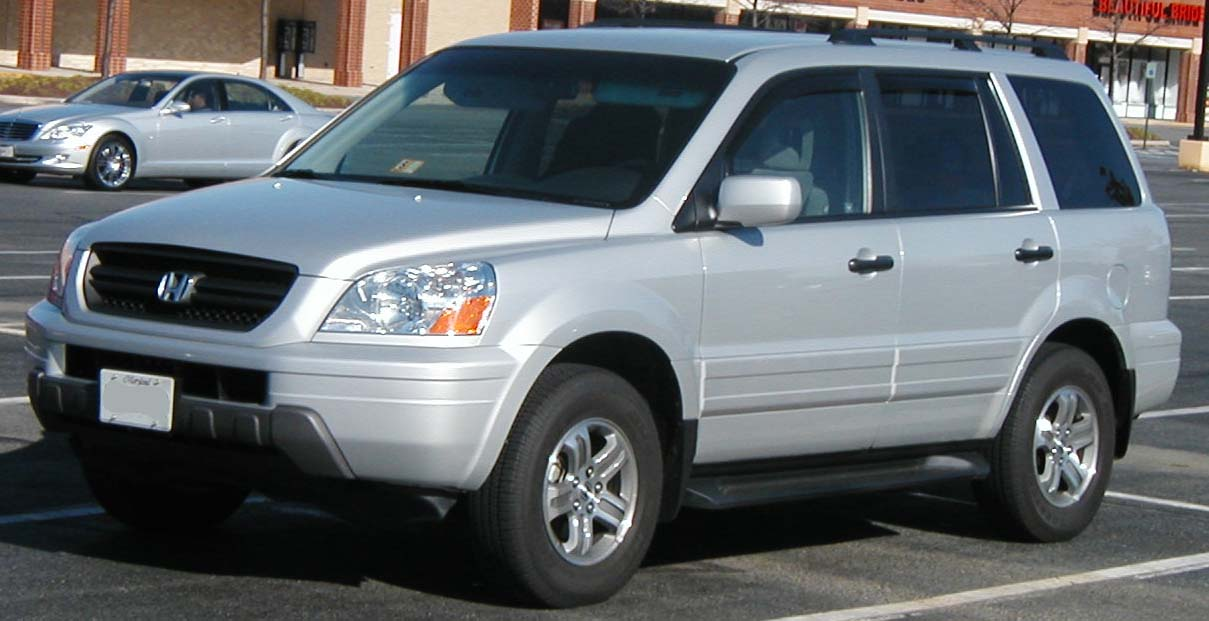 2003-2005 Honda Pilot photographed in USA.